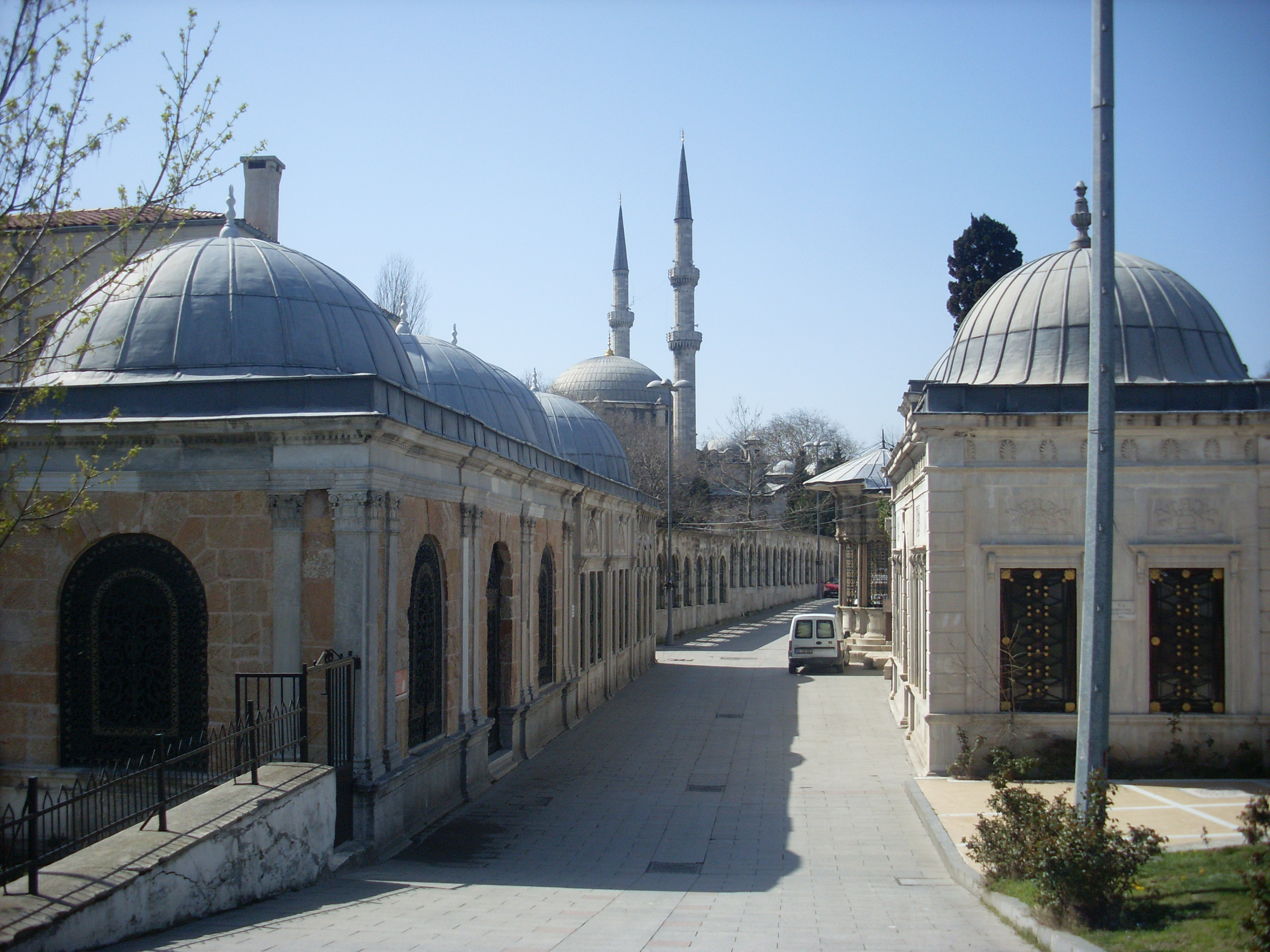 İstanbul - Eyüp, Cülus Yolu